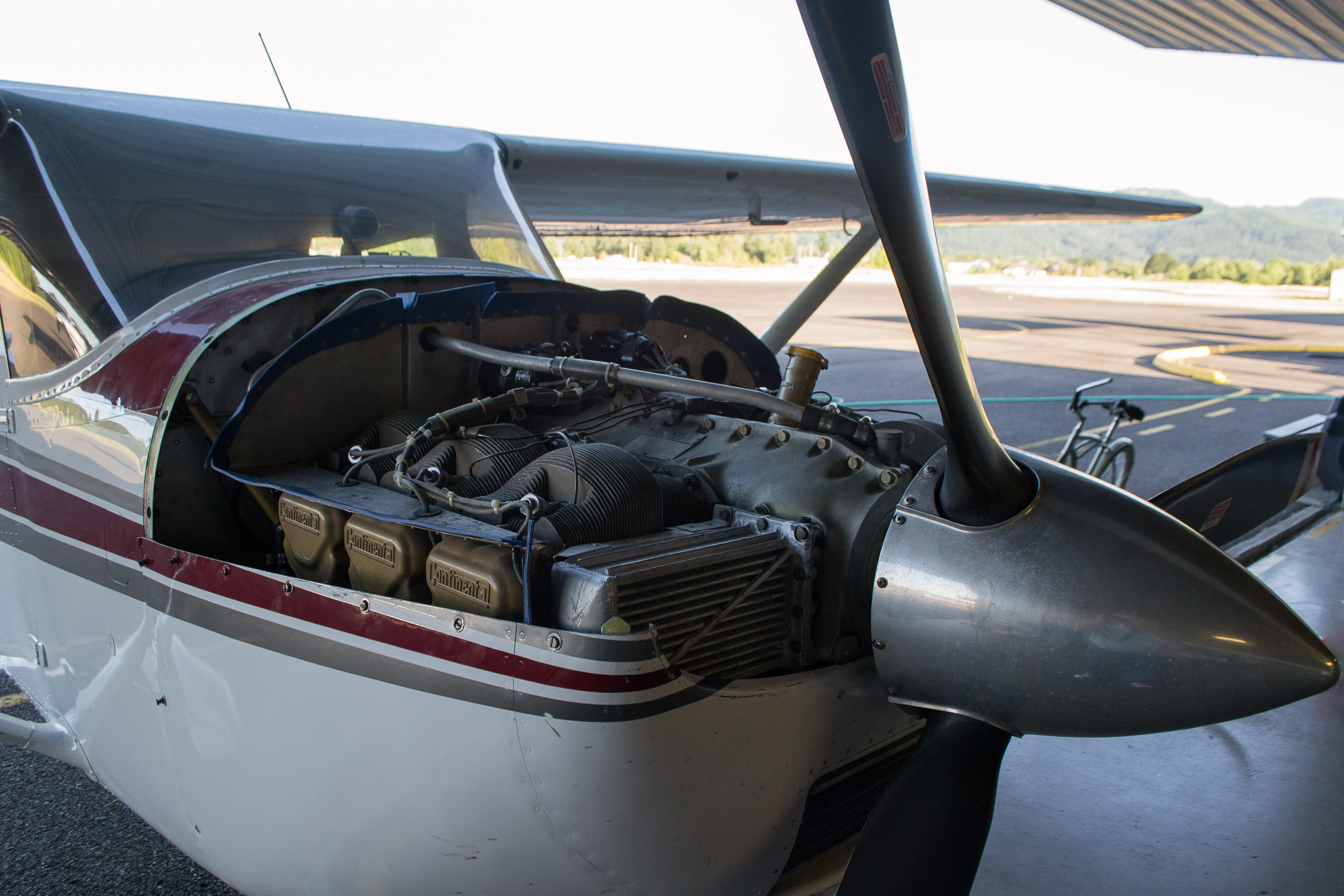 An aircraft engine inspection.